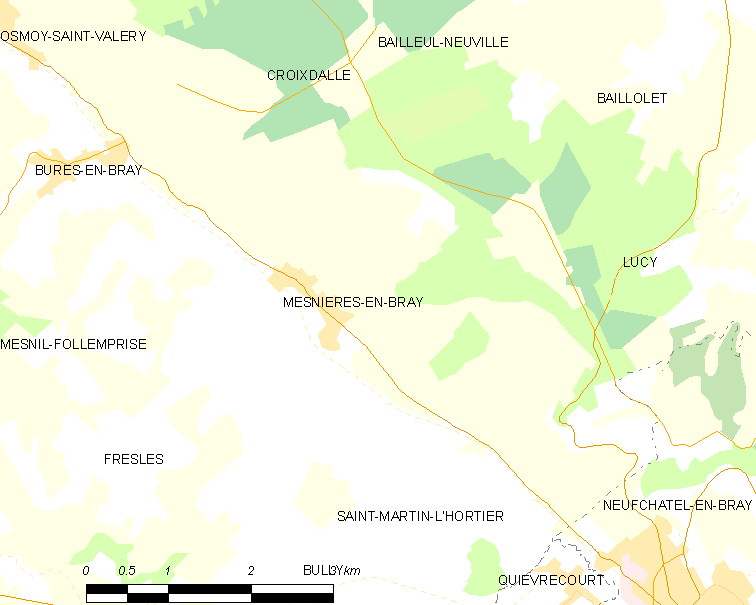 Map of French municipality Mesnières-en-Bray